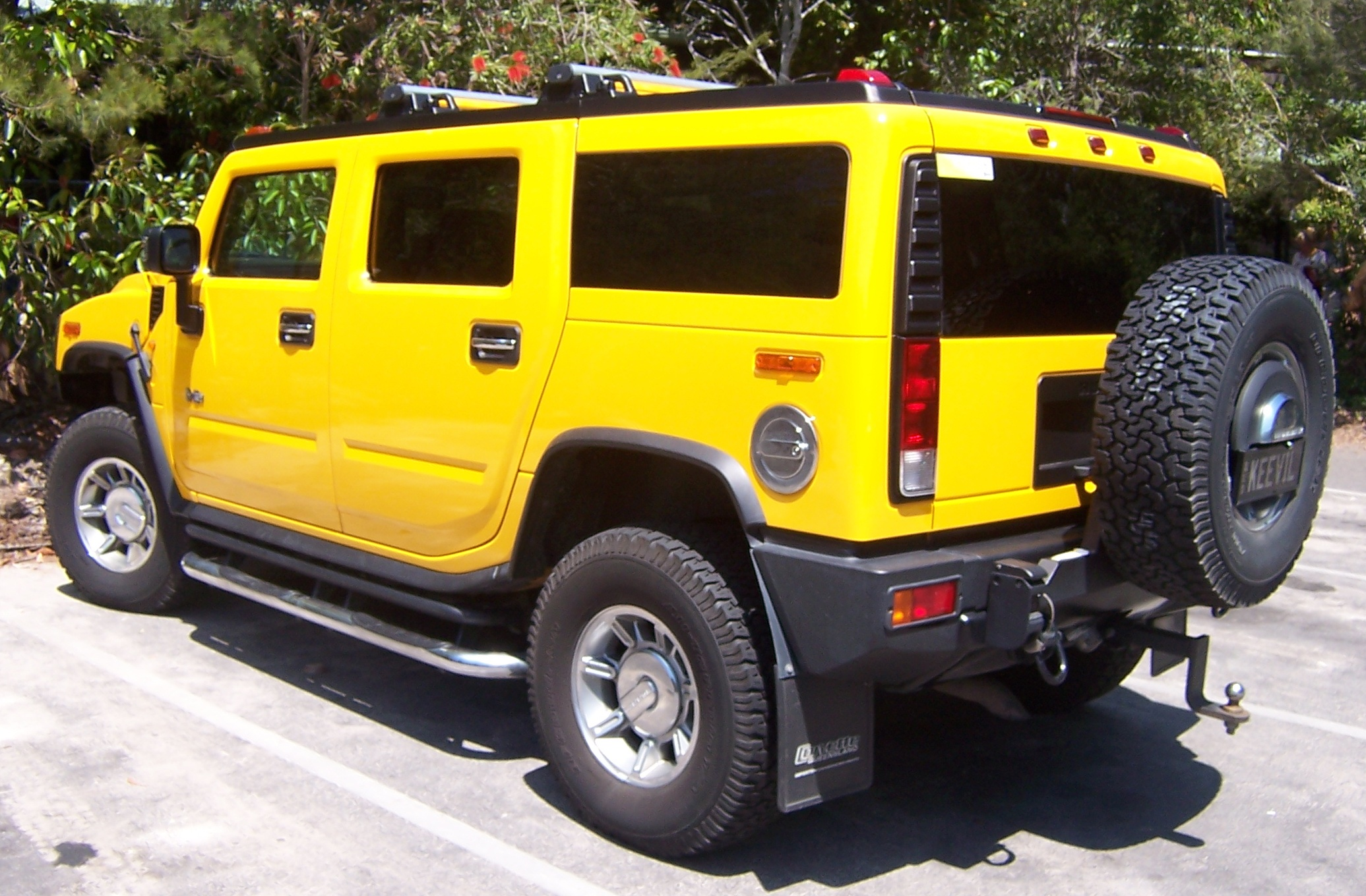 2003–2007 Hummer H2 wagon. Photographed on Fraser Island, Queensland, Australia.